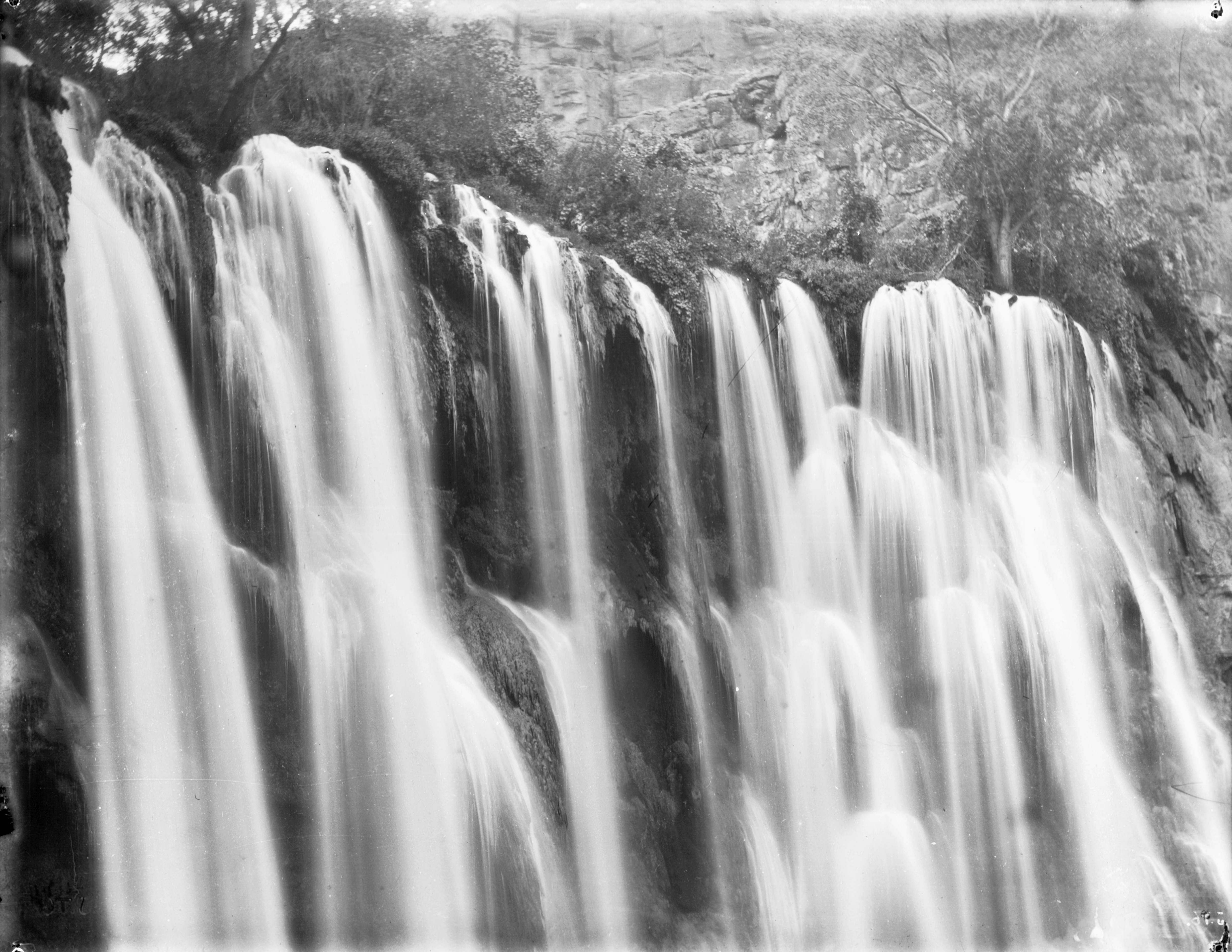 Bridal Veil Falls, Havasu Canyon, Grand Canyon, ca.1900 Photograph of Bridal Veil Falls, Havasu Canyon, Grand Canyon, ca.1900. The gossamer veil of the falls spills out over a wide grouping of boulders. Much vegetation grows on the area above the falls. The canyon wall is partially visible behind the trees at top. Call number: CHS-4597 Photographer: James, George Wharton Filename: CHS-4597 Coverage date: circa 1900 Part of collection: California Historical Society Collection, 1860-1960 Type: images Part of subcollection: Title Insurance and Trust, and C.C. Pierce Photography Collection, 1860-1960 Repository name: USC Libraries Special Collections Accession number: 4597 Microfiche number: 1-91-241 Archival file: chs_Volume96/CHS-4597.tiff Repository address: Doheny Memorial Library, Los Angeles, CA 90089-0189 Geographic subject (country): USA Format (aacr2): 2 photographs : photonegative, photoprint, b&w ; 20 x 25 cm. Rights: Digitally reproduced by the USC Digital Library; From the California Historical Society Collection at the University of Southern California Subject (adlf): canyons Repository Identifying number: unidentified no: James-76 Contributing entity: California Historical Society Date created: circa 1900 Publisher (of the digital version): University of Southern California. Libraries Format (aat): photographic prints; negatives (photographic); photographs Legacy record ID: chs-m16926; USC-1-1-1-14263 Geographic subject: canyons: Havasu Canyon; canyons: Grand Canyon Access conditions: Send requests to address or e-mail given. Phone (213) 821-2366; fax (213) 740-2343. Subject (file heading): Natural features -- Parks -- Grand Canyon -- Bridal Veil Falls Subject (lcsh): Parks; Canyons; Waterfalls